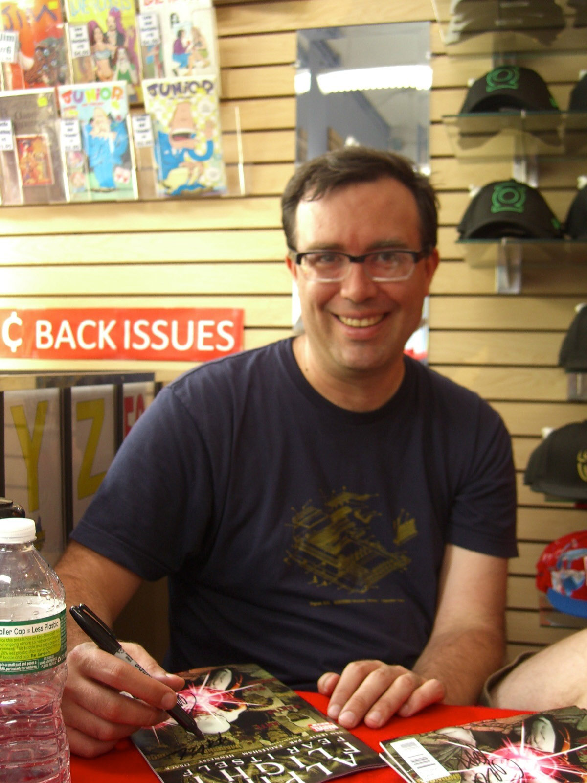 Comic book writer Fred Van Lente at a signing for Alpha Flight vol 4, #1 at Midtown Comics Downtown on June 18, 2011. Photographed by Luigi Novi. This photo is not in the public domain. It may, however, be used, modified and published for any purpose, free of charge, only if the photographer is properly credited, either by linking the photograph to this page, or with an easily visible credit to the photographer placed near the photo in each instance in which it is used. (See licensing information below.) Publication of this photo without this proper attribution constitutes copyright infringement. If you have any questions, you can contact me on my Wikipedia Talk Page.